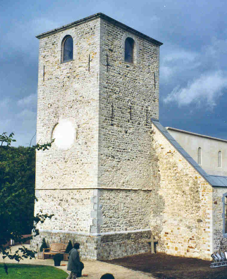 Old church of Lîssin (Lincent), made of special sedimentary stone, called "tuffeau" in French and "tawea" (tawia, tawê) in walloon.